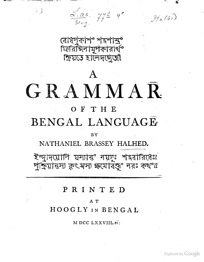 Scanning image of A Grammar of the Bengal Language, is a modern Bengali grammar book by Nathaniel Brassey Halhed printed in 1778.